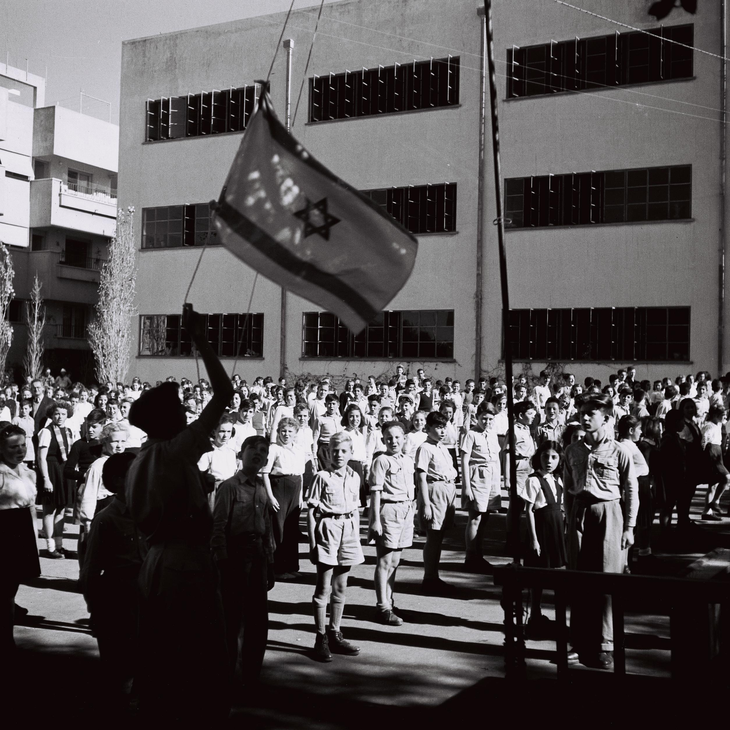 Hoisting of the national flag during a special ceremony of elementary school children in Tel Aviv.. הנפת הדגל בטקס בית הספר היסודי של תל אביב Photo: Zoltan Kluger (1896–1977) Alternative names Qlwger, Zwlṭan; Zolṭan Ḳluger; Kluger, Z.; W. von Szigethy; W. Von SzighethyDescriptionHungarian-Israeli photographerDate of birth/death 8 February 1896 16 May 1977Location of birth/death Kecskemét ManhattanAuthority control : Q7035699 VIAF: 19504001 ISNI: 0000 0000 6686 1613 ULAN: 500483392 LCCN: no2008144265 Open Library: OL6614008A WorldCat creator QS:P170,Q7035699 , 01/01/1948